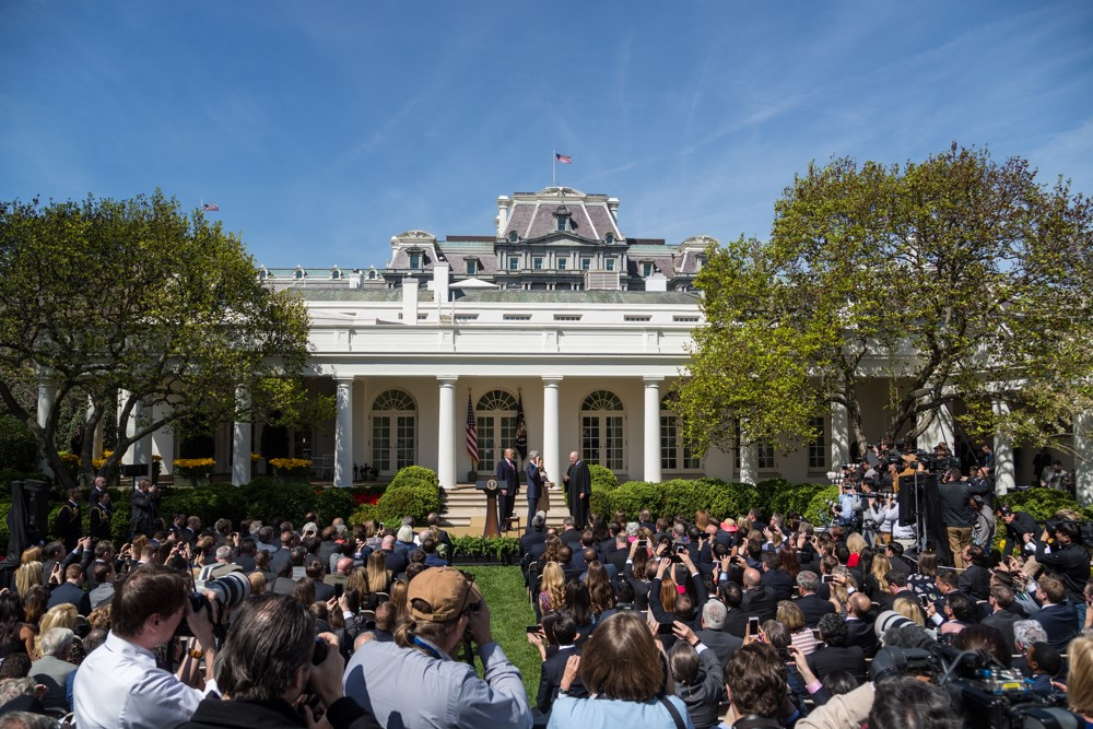 President Donald Trump delivers remarks prior to Judge Neil M. Gorsuch taking his oath to be the Supreme Court's 113th Justice, Monday, April 10, 2017, in the Rose Garden of the White House in Washington, D.C. (Official White House Photo by Shealah Craighead)